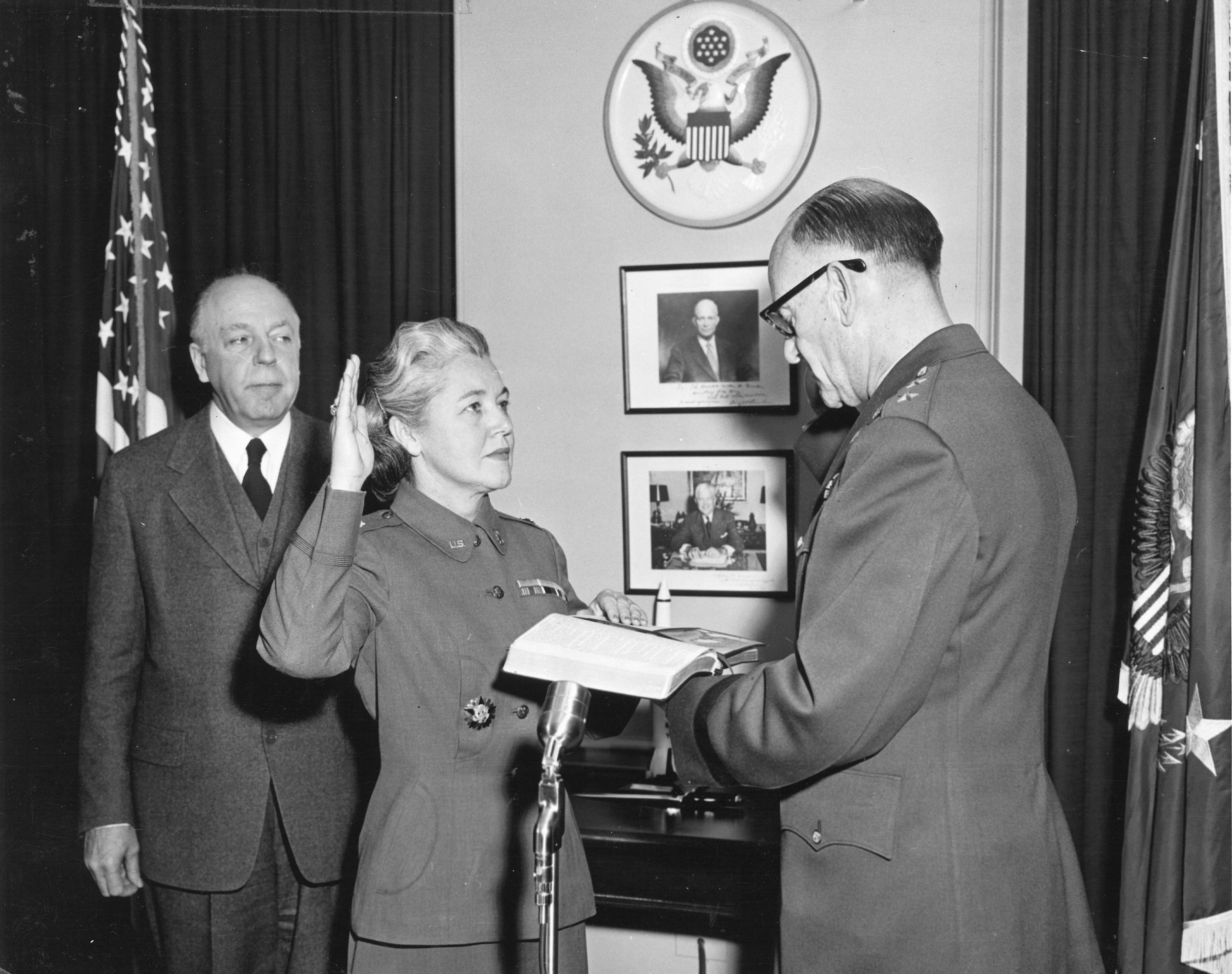 From the back of the photo: Colonel Mary L. Milligan, being sworn in as the new Director of the Women's Army Corps, by Major General Herbert Jones, The Adjutant General, while Secretary of the Army Wilber M. Brucker looks on. Ceremony held in the Pentagon.